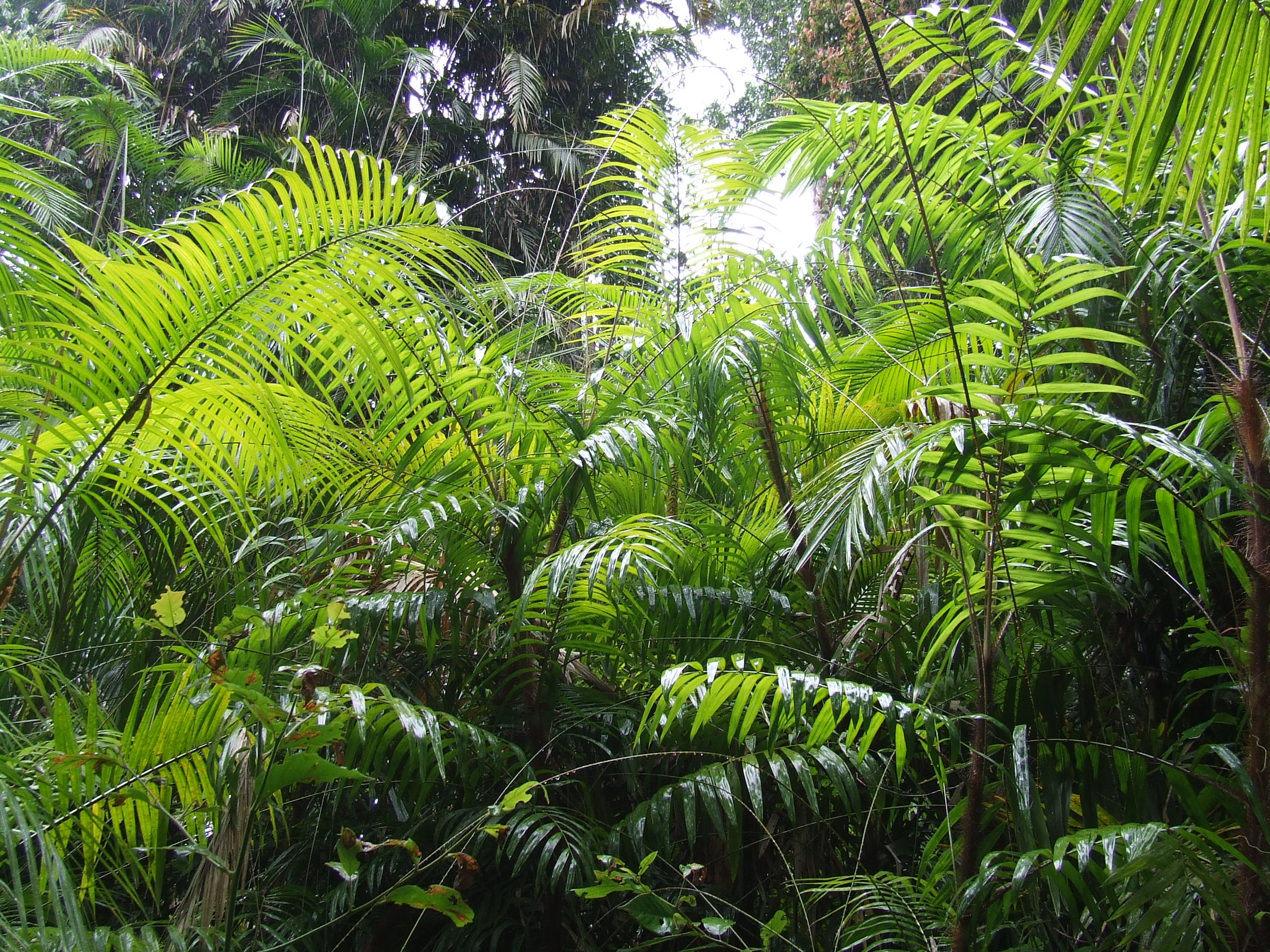 Ferns and palm trees on the forest walk Lake Barrine, Atherton Tablelands, QLD